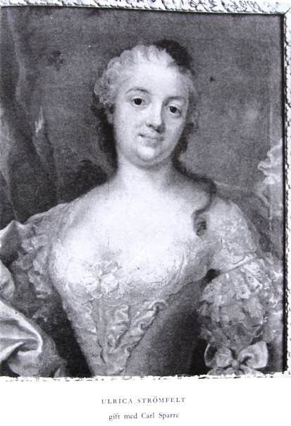 Portrait of Ulrika Eleonora Sparre, Swedish lady-in-waiting.